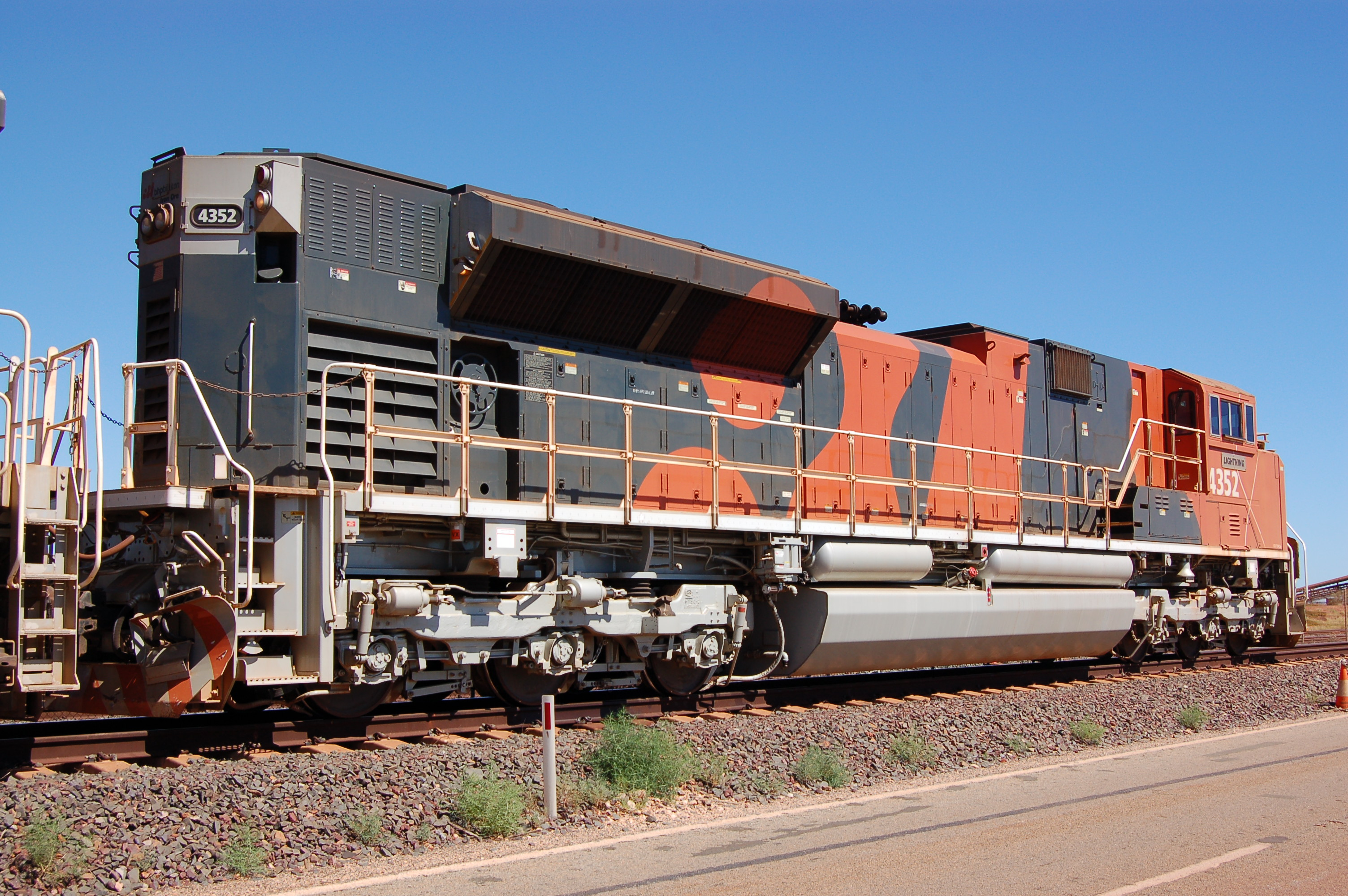 BHP Billiton Iron Ore EMD SD70ACe no. 4352 Lightning, at the head of a loaded train at Boodarie, near Port Hedland, Western Australia. The train was awaiting clearance to continue towards the Finucane Island loop, at the northern end of the Goldsworthy railway, to unload.